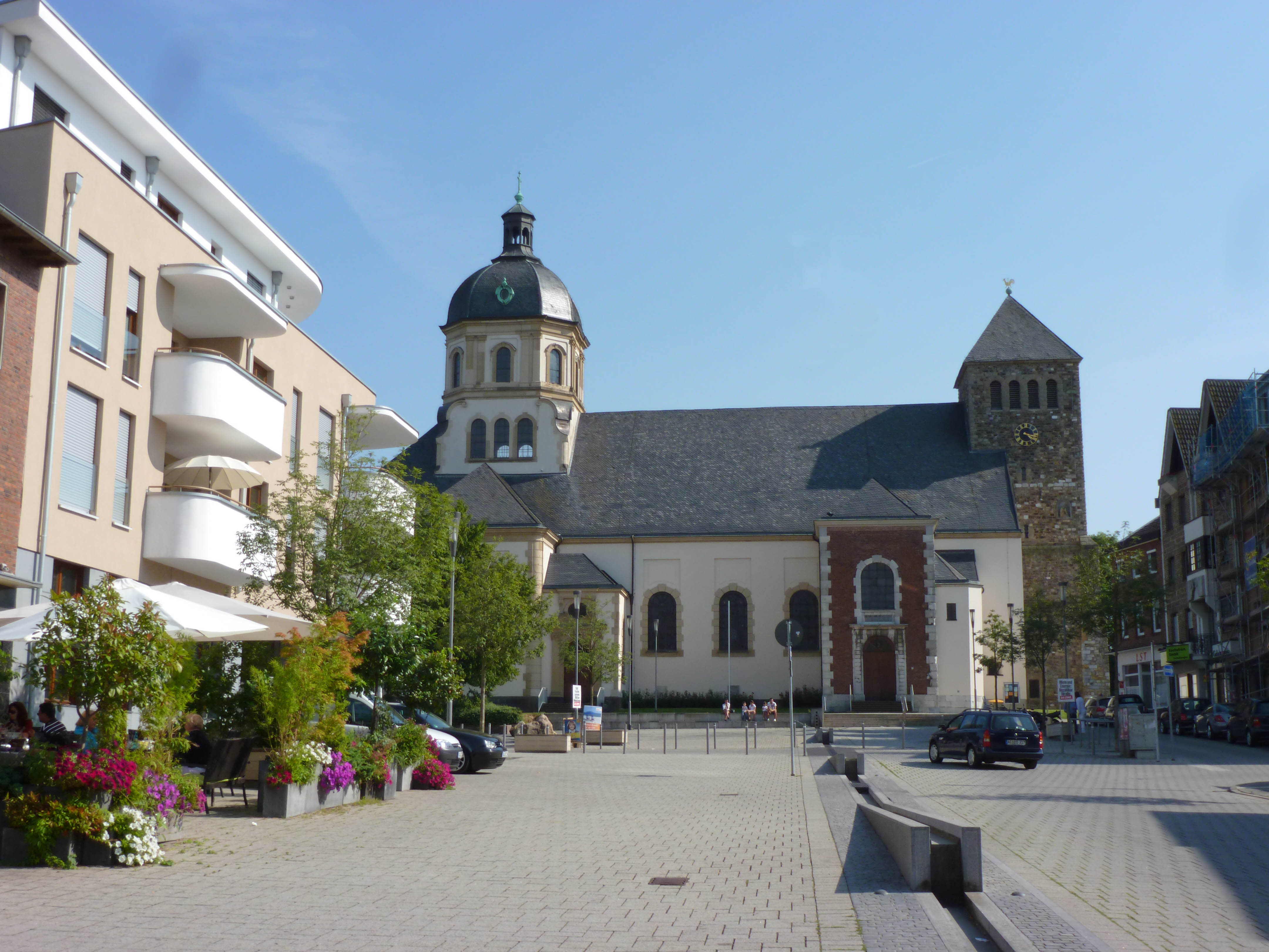 Würselen centre; view from the market towards St Sebastian